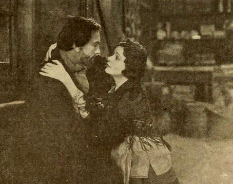 Still from the American drama film The New Moon (1919) with Pedro de Cordoba and Norma Talmadge, on page 801 of the May 10, 1919 Moving Picture World.